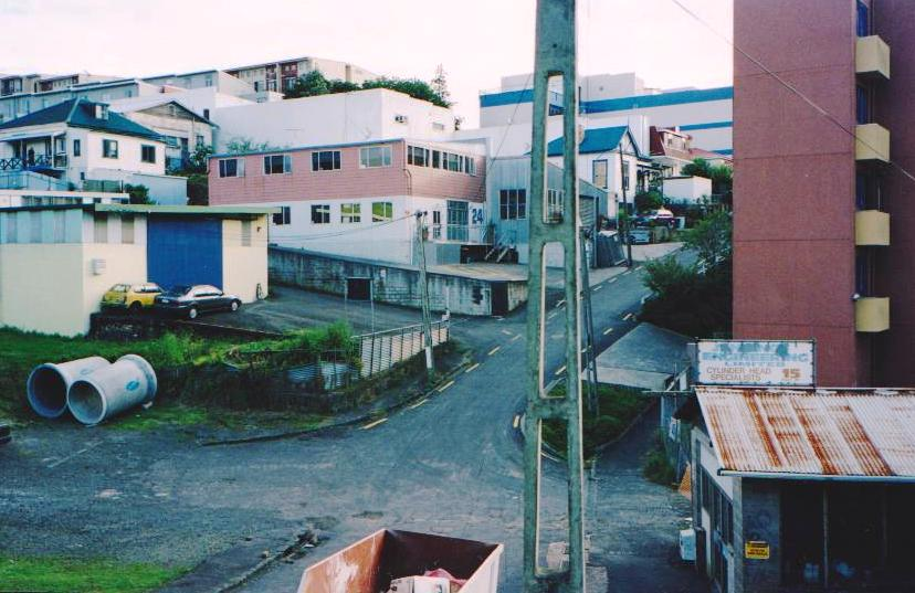 The Industrial part of Fleet Street, Eden Terrace, Auckland, New Zealand.